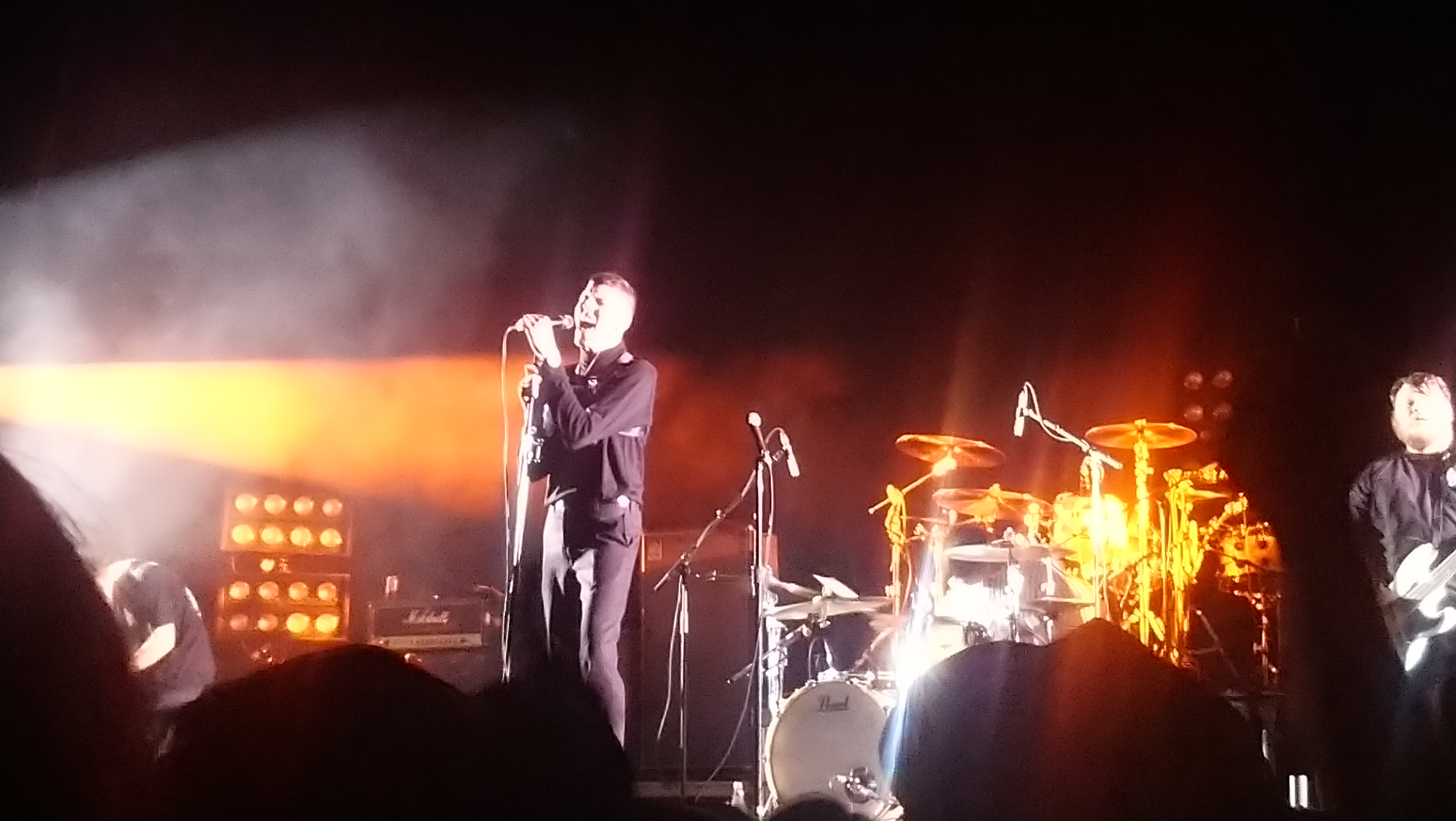 Trophy Eyes opening for Bring Me the Horizon, 2019